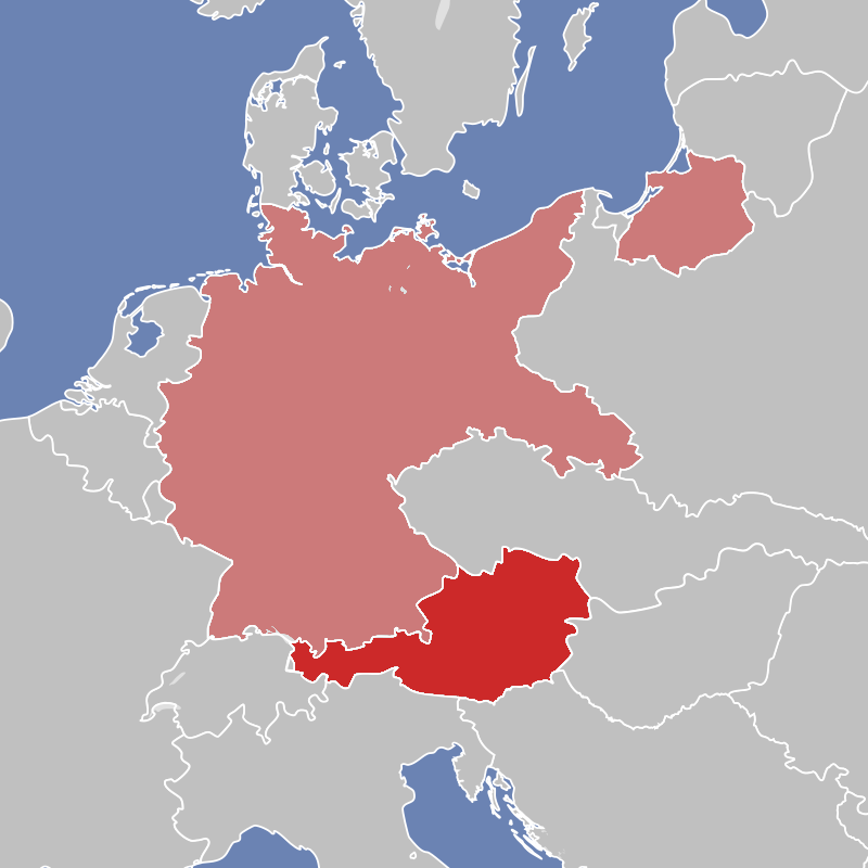 State of Austria (Land Österreich, "Ostmark") within the German Reich. Borders shown are valid from March 13, 1938 (the day Austria joins) until September 30, 1938 (the day before Germany invades Czechoslovakia).